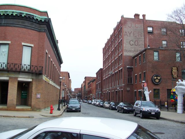 Middle Street, Lowell, Massachusetts